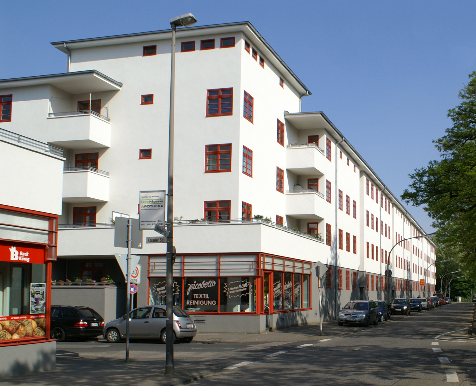 Köln-Buchforst, sanierte Wohnsiedlung Blauer Hof